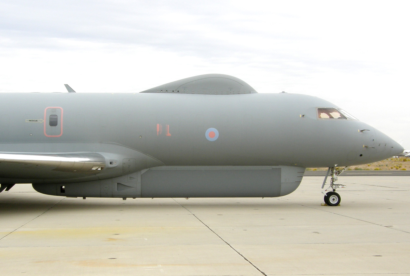 Royal Air Force Sentinel R.1 visits the National Test Pilot School at Mojave